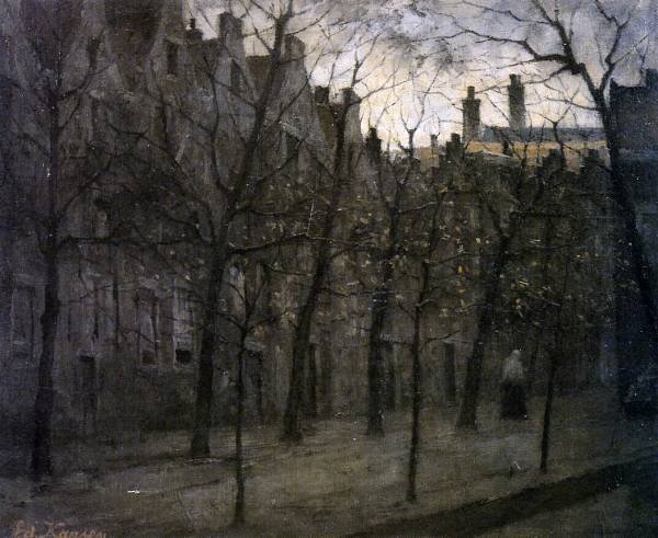 Begijnenhof in Amsterdam